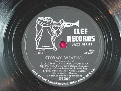 Billie Holiday - Tenderly/Stormy Weather 1052 Clef Records